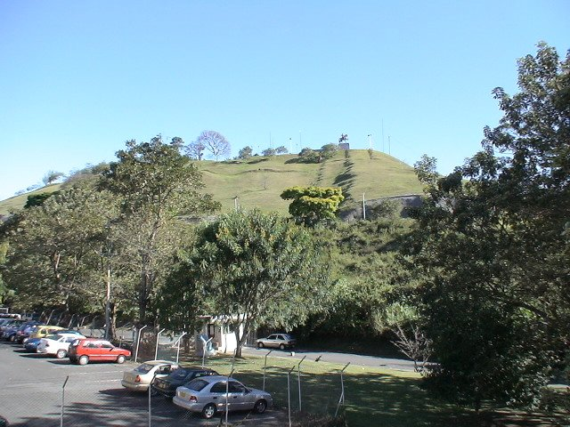 El Morro Tulcán is the main archaeological site of Popayán (Colombia)